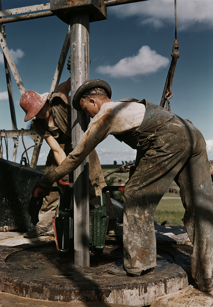 Title: Mission & Gulf Rig Creator: Robert Yarnall Richie Date: May 1939 Part Of: Robert Yarnall Richie Photograph Collection Place: Texas or Louisiana Physical Description: 1 transparency: film, color; 17.7 x. 12.6 cm. File: ag1982_0234_1994_K_01_missionmfgco_sm_opt.jpg Rights: Please cite DeGolyer Library, Southern Methodist University when using this file. A high-resolution version of this file may be obtained for a fee. For details see the web page. For other information, . For more information and to view the image in high resolution, View the Robert Yarnall Richie photograph collection